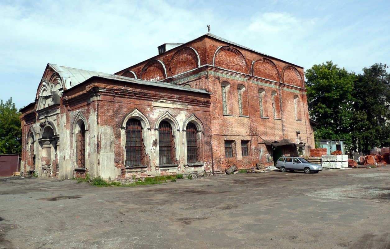 Church of the Exaltation of the Cross, Yaroslavl (1675-78)